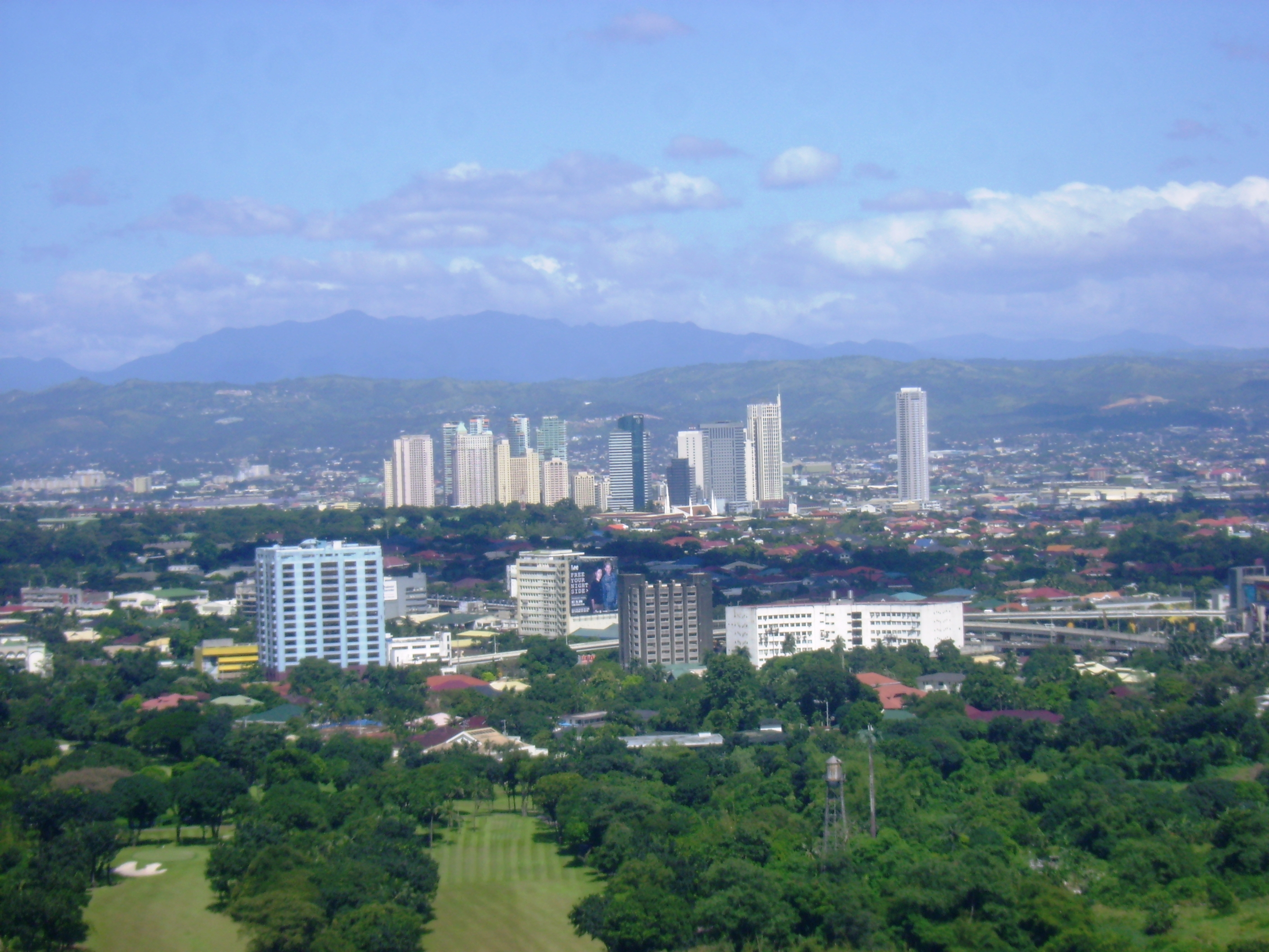 Eastwood City Libis and EDSA-Ortigas Interchange; taken from One Summit Tower in Mandaluyong